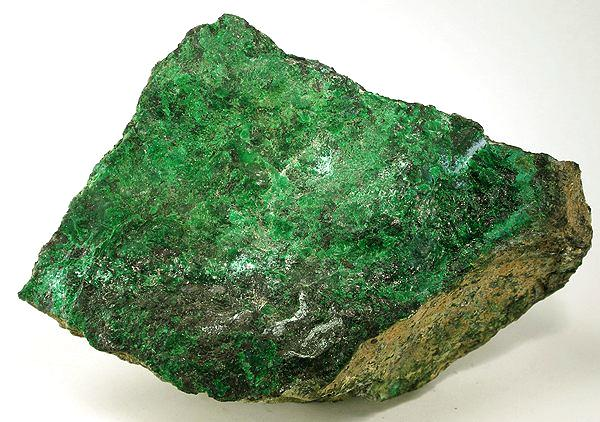 Hellyerite, Heazlewoodite, Zaratite Locality: Lord Brassey Mine, Heazlewood district, Tasmania, Australia (Locality at ) Size: 10.4 x 7.8 x 4.4 cm. A very rich, very rare and fine cabinet specimen from Tasmania. The rich, emerald-green coating of the rare nickel carbonate, zaratite, hosts powder-blue hellyerite and light bronze heazlewoodite. Hellyerite is a rare nickel carbonate and heazlewoodite is a rare nickel sulfide and the Lord Brassey Mine is the Type Locality for both species. The matrix also contains chromite. The Lord Brassey mine is an old abandoned nickel mine. You do not see much available. Older, exceptionally rich and rare combination material.